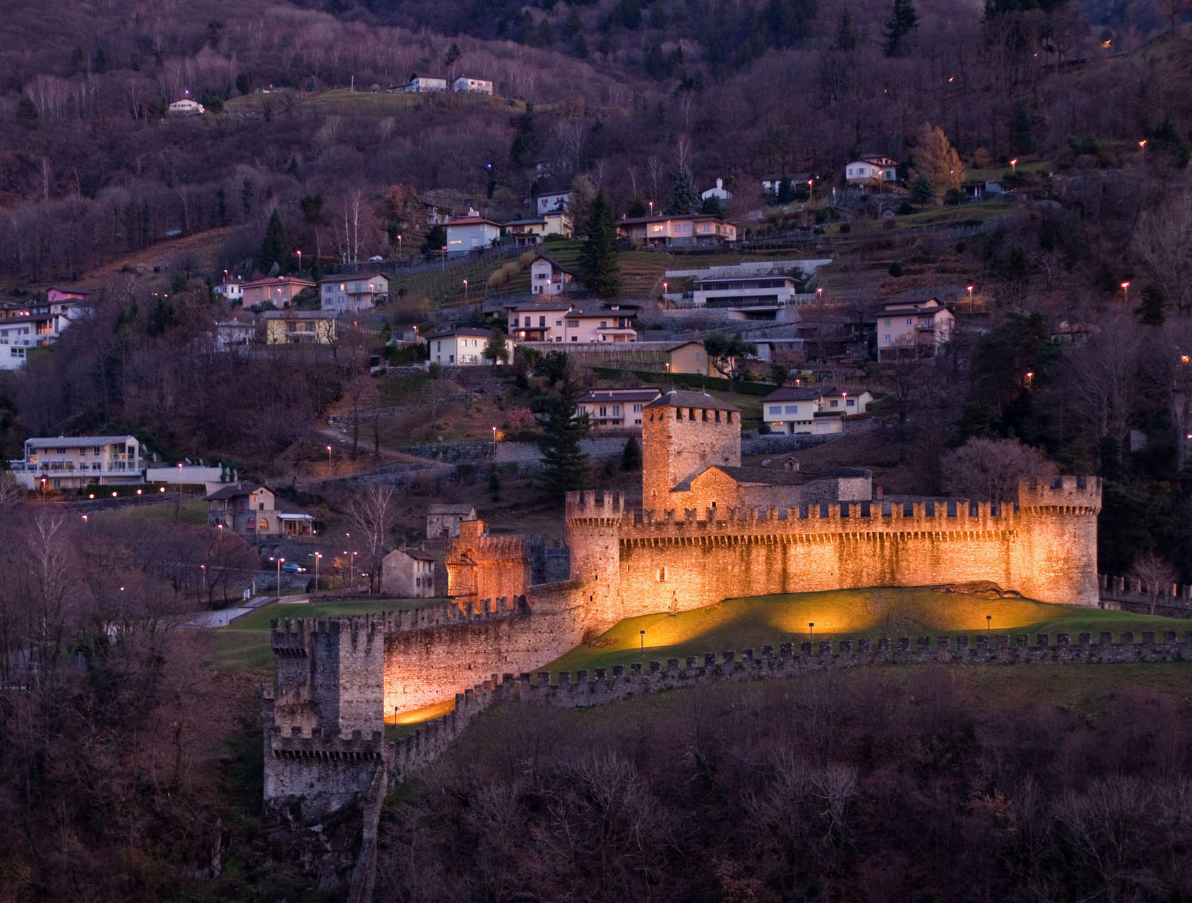 View of Montebello from Castelgrande, part of the complex of the Castles of Bellinzona (UNESCO World Heritage Site) in Ticino, Switzerland.